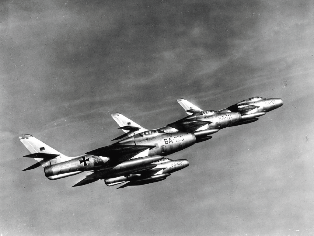 Republic F-84F Thunderstreak, Waffenschule 30, Luftwaffe (Bundeswehr), formed at Erding in 1956, integrated into Waffenschule 10 at Oldenburg during 1959, West-Germany, ca. 1960